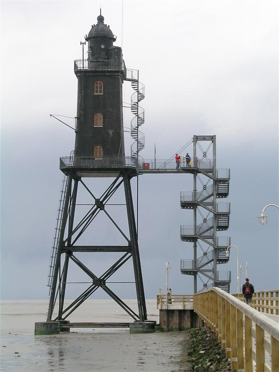 Dorum, Lower Saxony, Germany: Lighthouse Obereversand of 1887, photo 2006